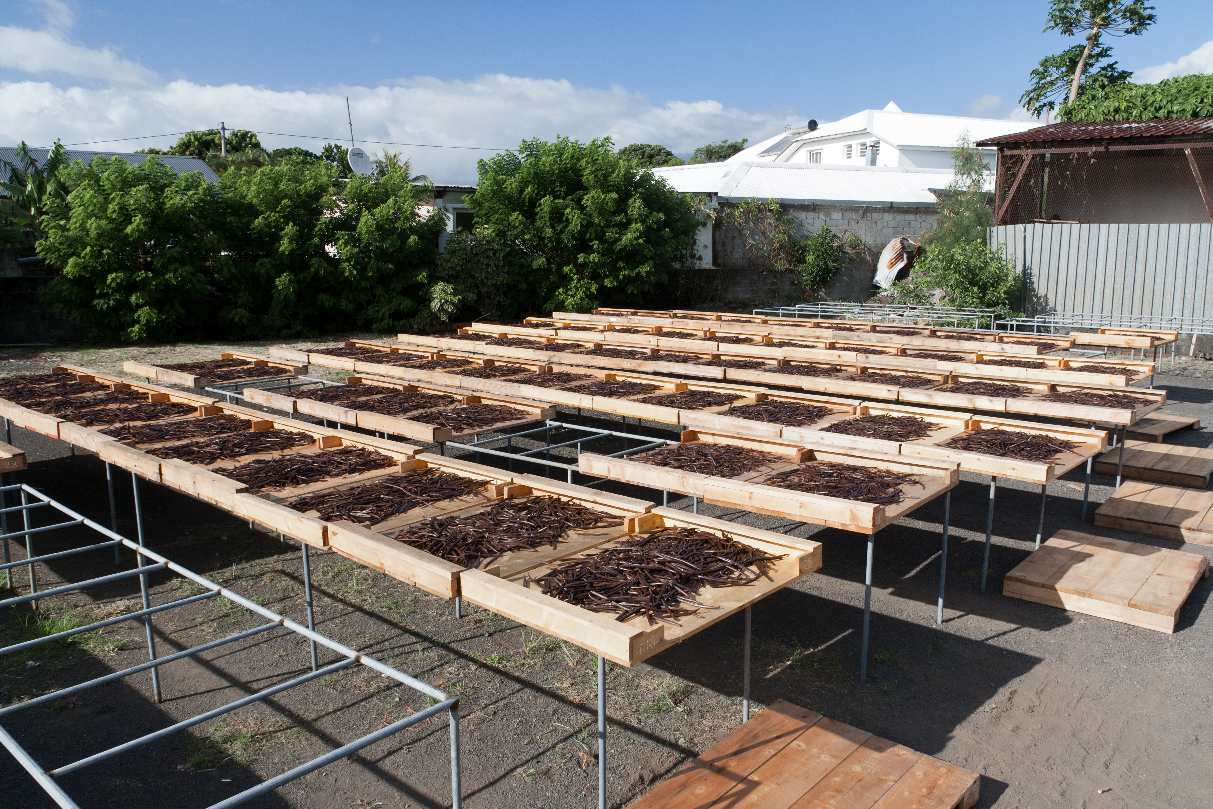 Vanilla pods drying in Bras-Panon, Réunion Island